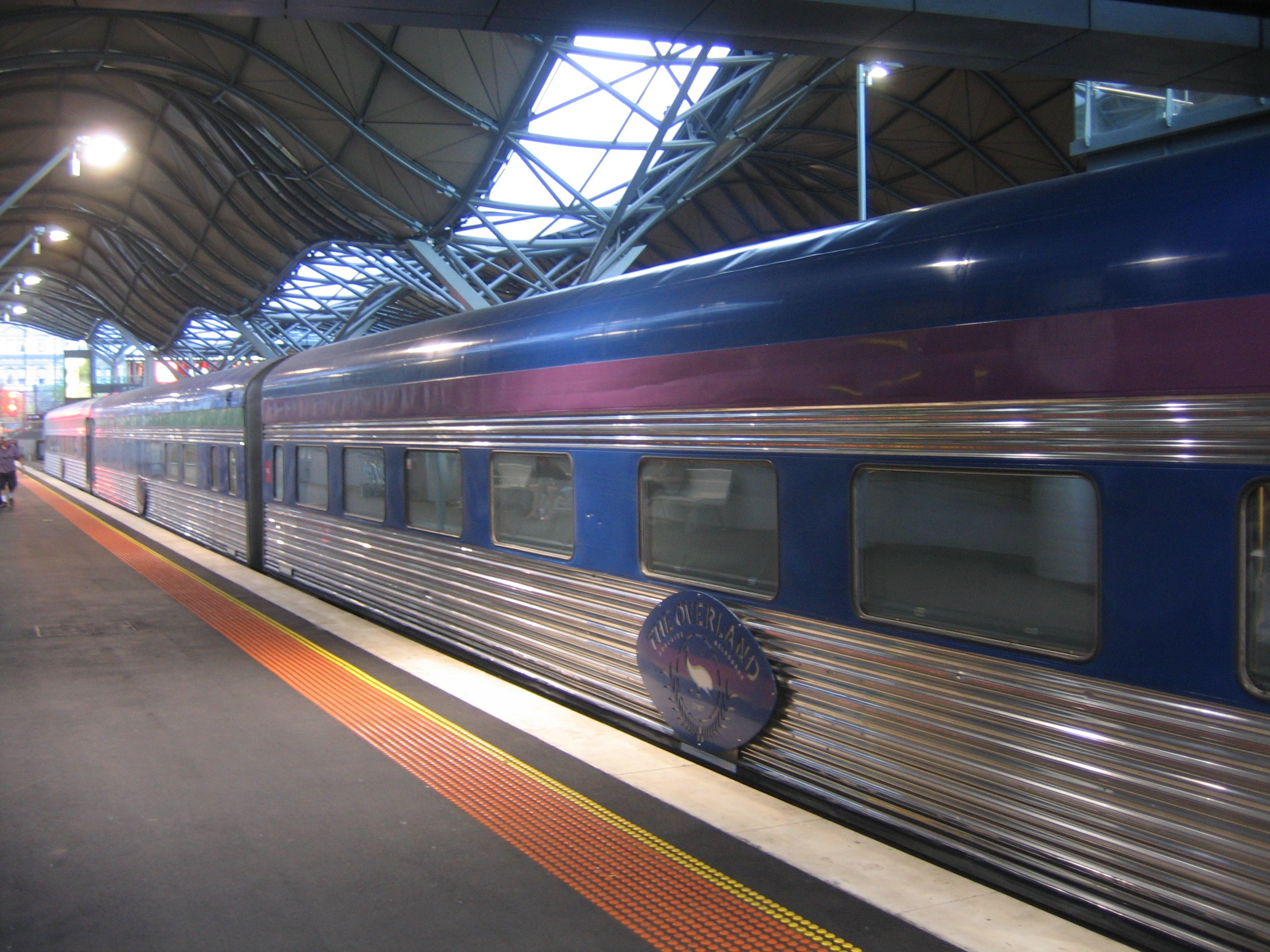 The Overland at plattform of Southern Cross Station,Melbourne